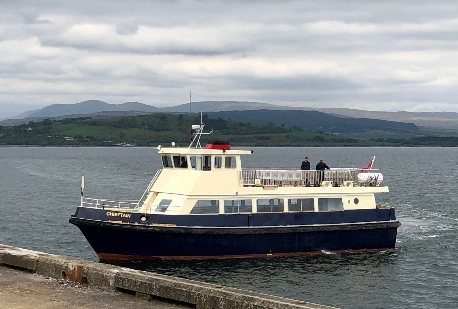 The former MV Seabus, renamed MV Chieftain, back on the Kilcreggam ferry service in May 2018 and arriving at Gourock pier.